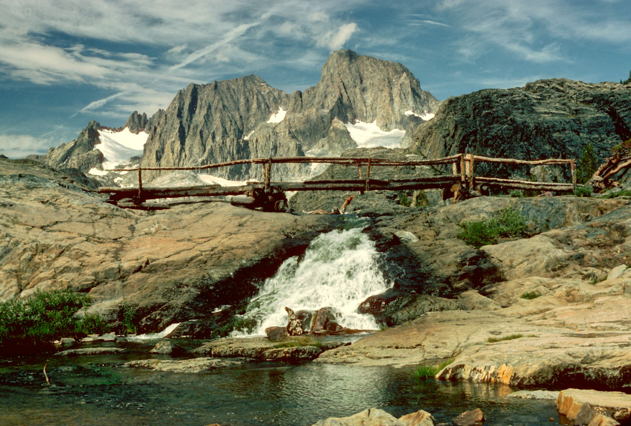 Mount Ritter and Banner Peak, Ansel Adams Wilderness, California, United States